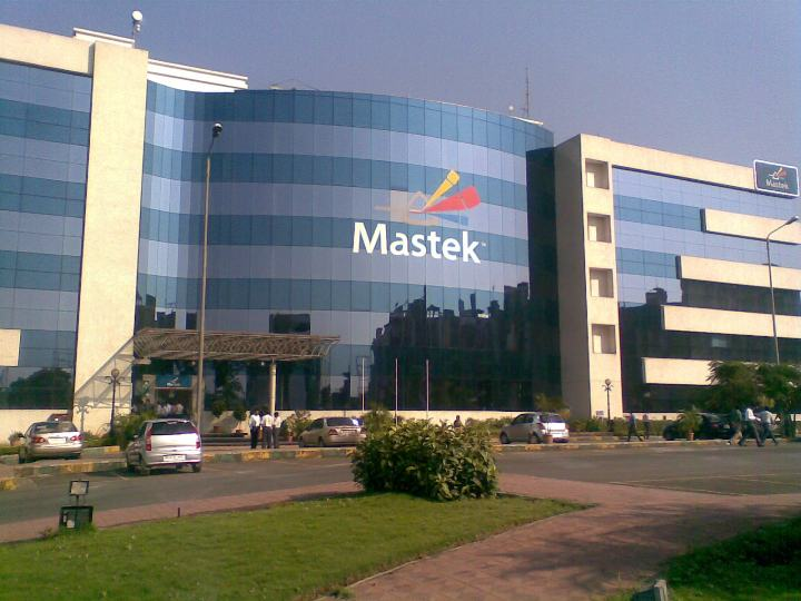 Mastek Mumbai(Mahape) Office Building KuwarOnline (talk) 20:09, 4 September 2009 (UTC)